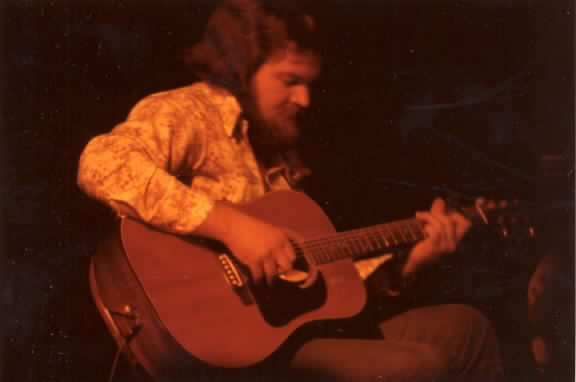 photo by Einar Einarsson Kvaran Doc Watson